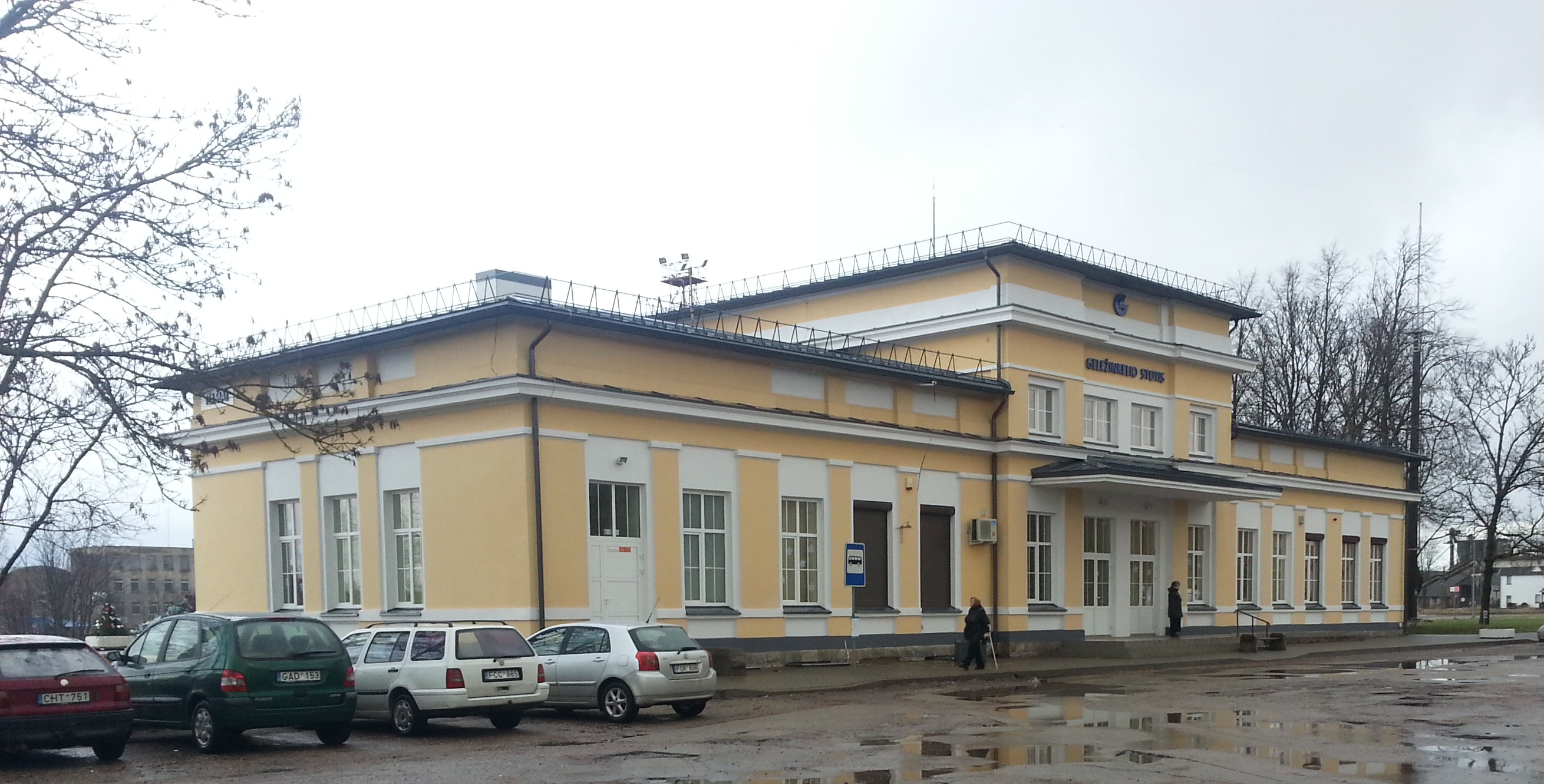 Railway station in Telšiai, LithuaniaLietuvių: Telšių geležinkelio stotisŽemaitėška: Telšiū gelžkėle stuotes